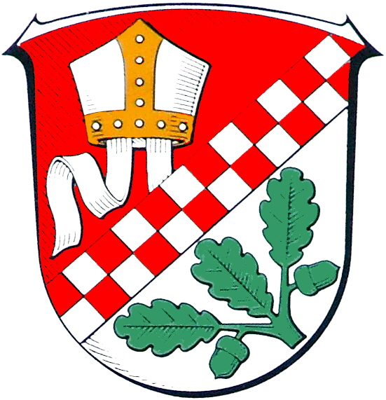 Coat of Arms of Haina (Kloster)